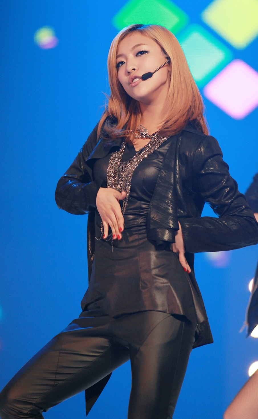 Luna Park at the 2010 KBS Gayo Daejun in December 30, 2010.